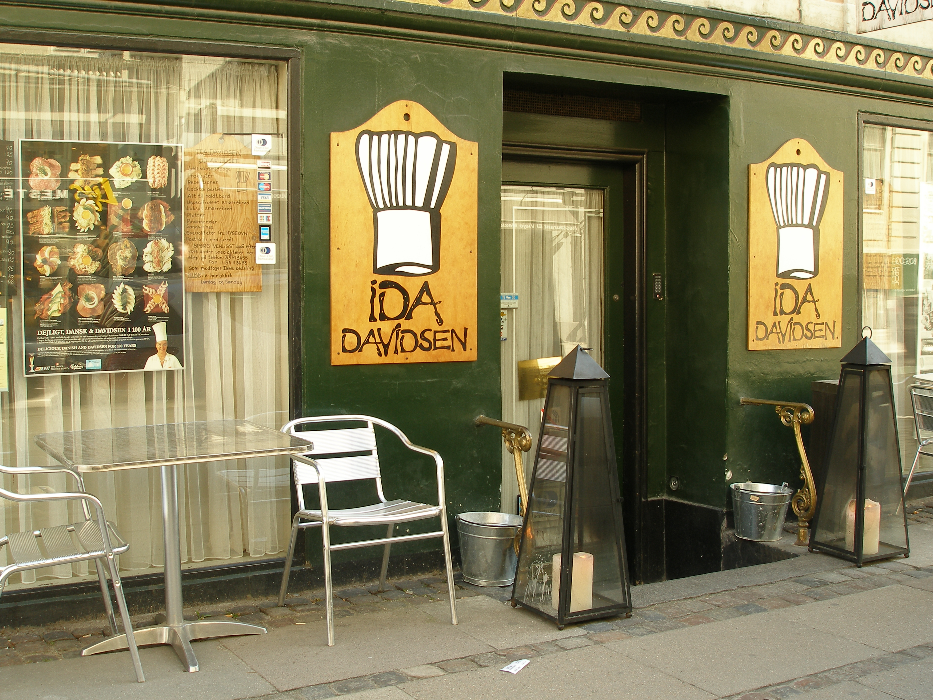 Restaurant Ida Davidsen, St. Kongensgade 70, Copenhagen, Denmark